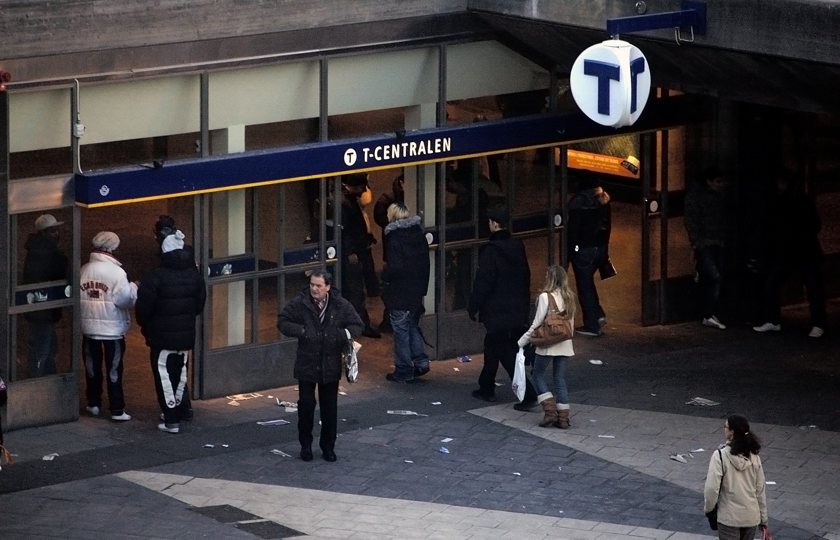 One of the many entrances to T-centralen metro station, Stockholm.